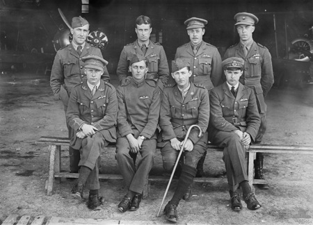 Group portrait of officers of C Flight, No. 4 Squadron, Australian Flying Corps (AFC) at their aerodrome near Clairmarais. Back row, left to right: Lieutenant (Lt) R. H. Youdale, AFC; Lt R. C. Nelson, AFC; Lt G. S. Jones-Evans RAF attached 4th AFC; Lt J. C. F. Wilkinson RAF attached 4th AFC. Front row: Lt E. C. Crosse RAF attached 4th AFC; Lt V. G. M. Sheppard, AFC; Captain Edgar James McCloughry, AFC; Lt E. V. Culverwell RAF attached AFC.